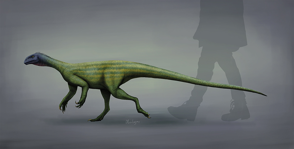 Thecondontosaurus life restoration 2018 by Mario Lanzas